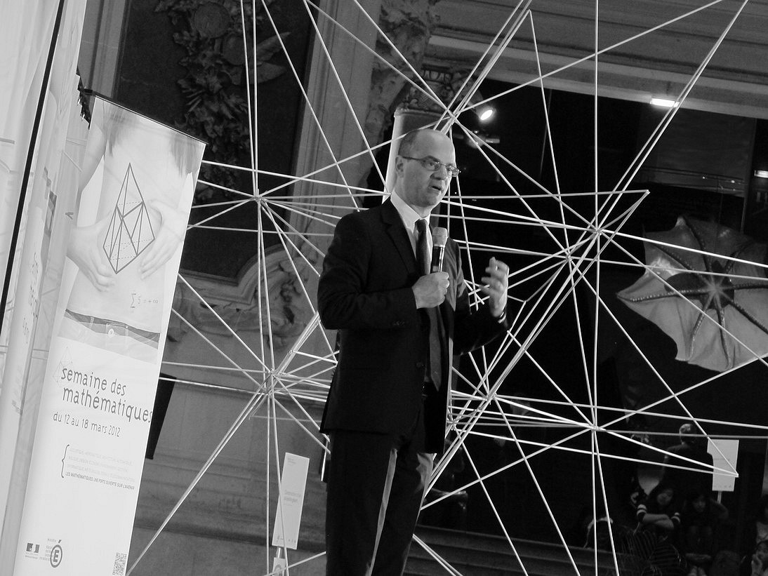 Jean-Michel Blanquer